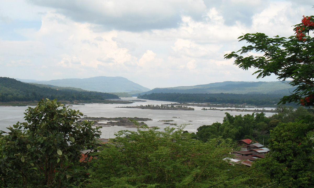 The Mun River Mouth, the point that the river tributes to the Mekong River.